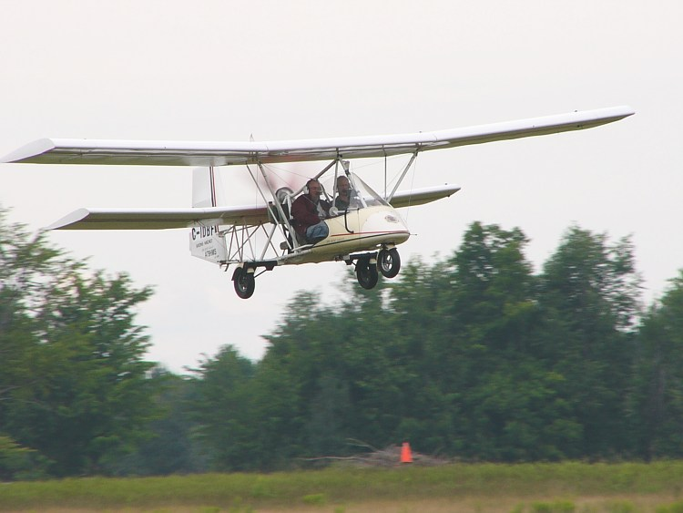 Avions Mignet HM.1000 Balerit at the Hawkesbury, Ontario Fly-in on 14 August 2005.